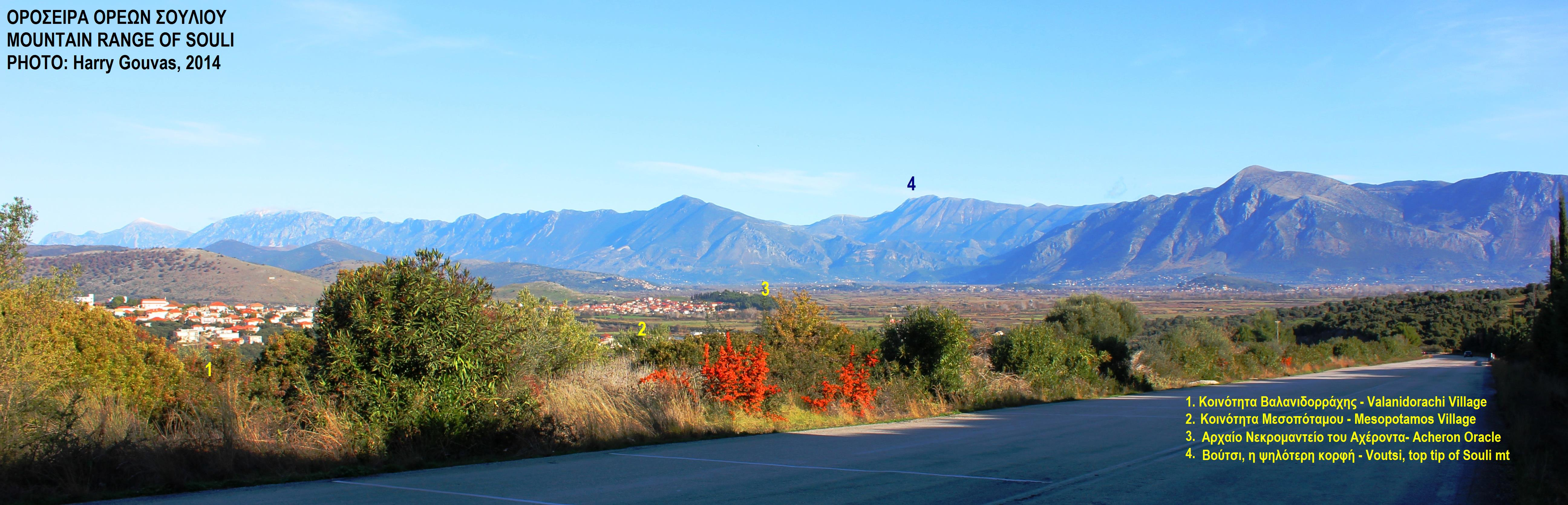 Mountain range of Souli